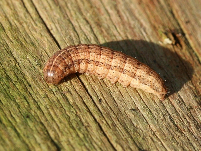 Pachetra sagittigera caterpillar, location: The Netherlands - Ommen - Landgoed Junne - Junnerveld